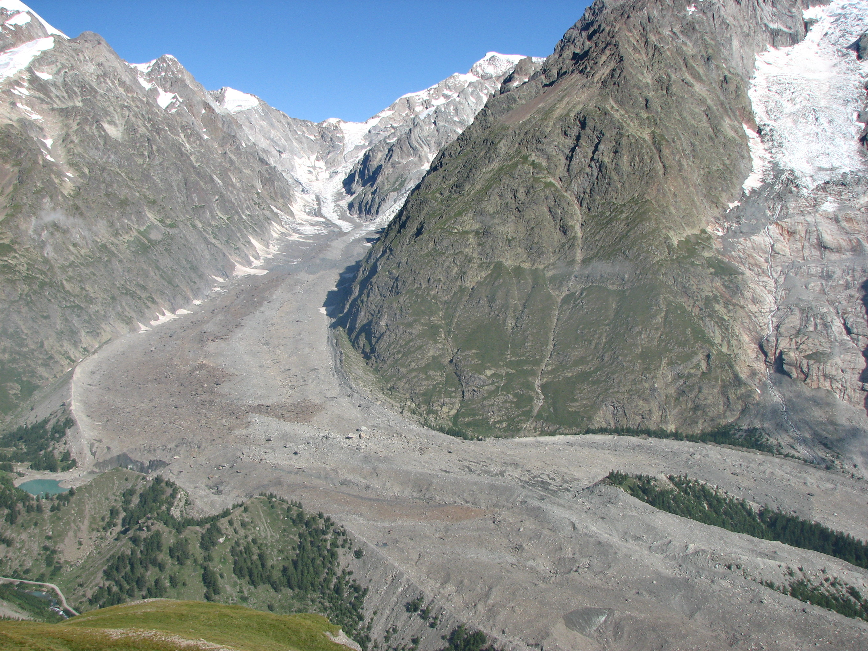 Miage Glacier in Italy, viewed from near the viewpoint below Mont Favre.